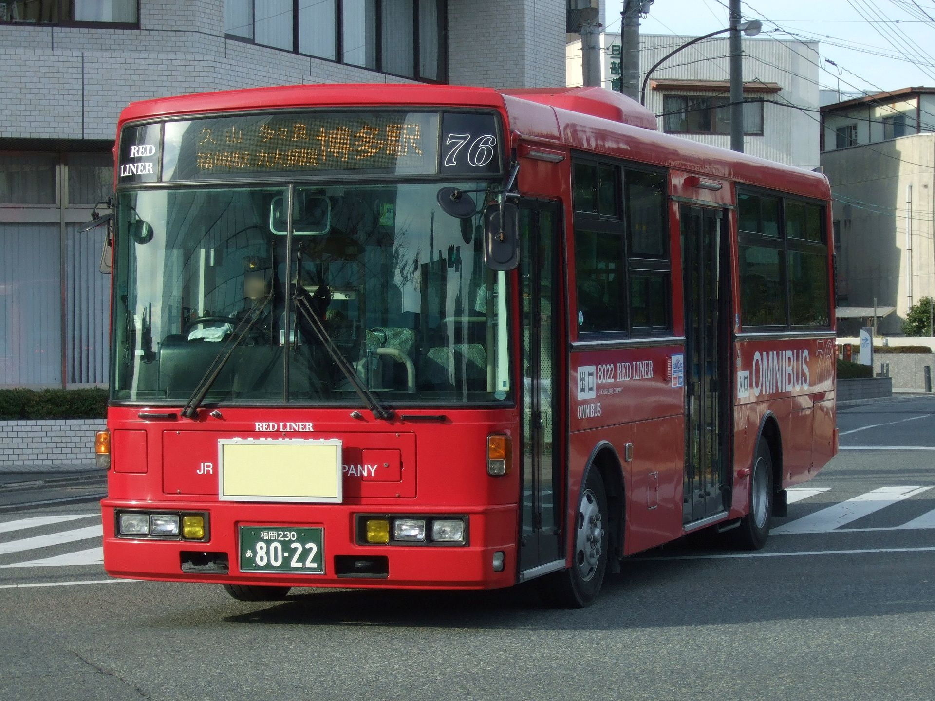 JR Kyushu bus. See below.